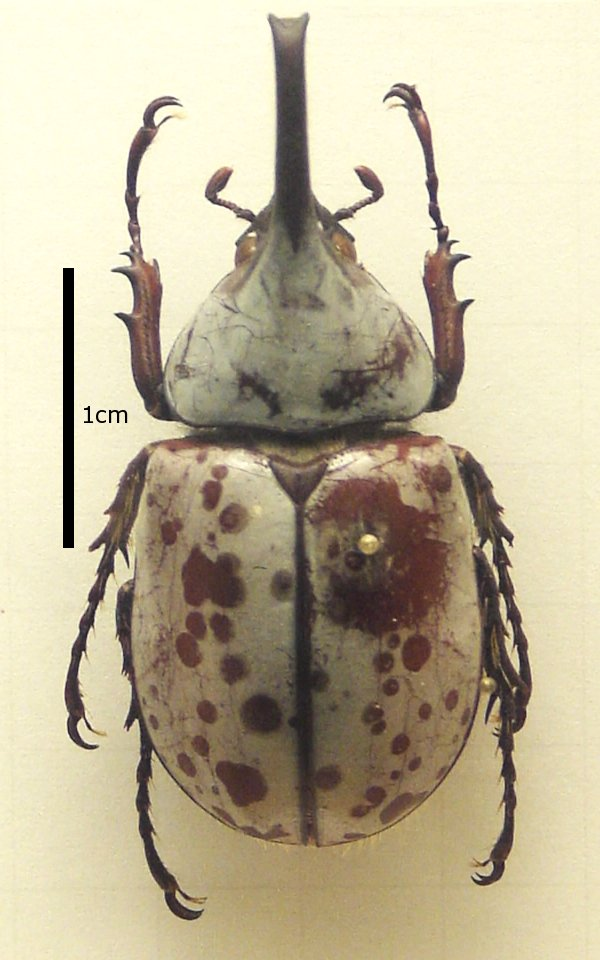 Dynastes granti (Scarabaeidae), mounted specimen from Mexico; Cologne Zoo, Germany.